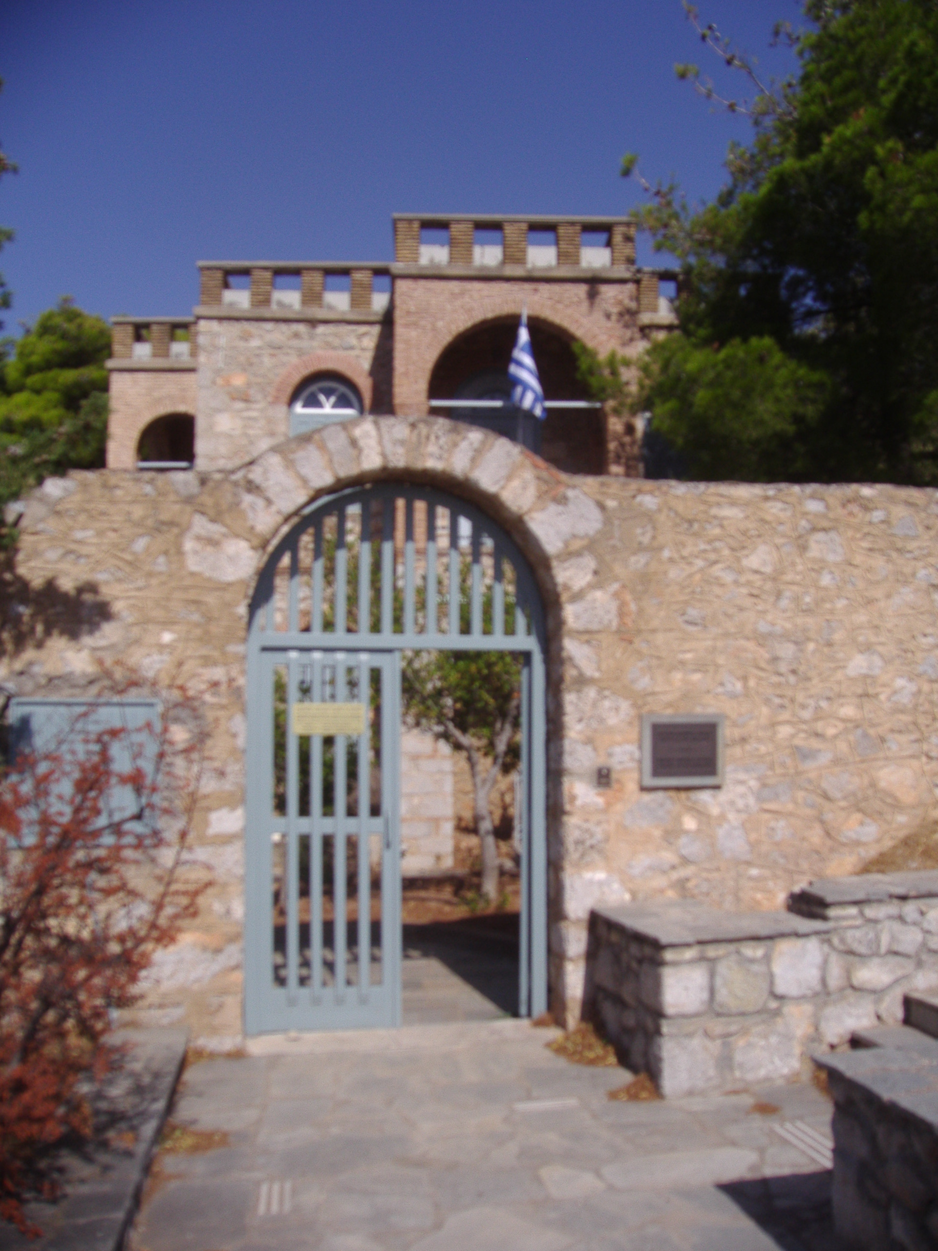 this is the House of Aggelos Sikelianos at Delphi, Greece. Now a museum.